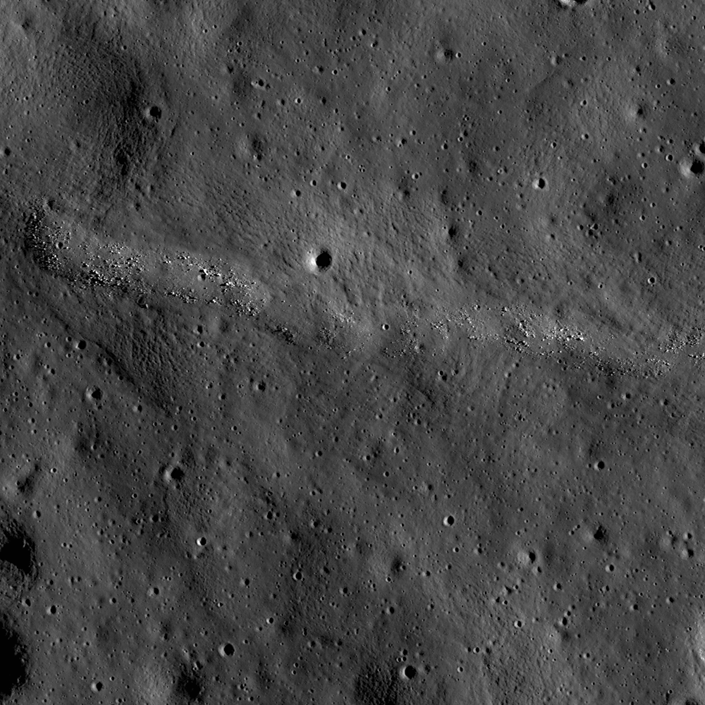 A nascent 15 km wrinkle ridge in Jenner crater. LROC NAC M115693540LE, image width is 1350 m [NASA/GSFC/Arizona State University].